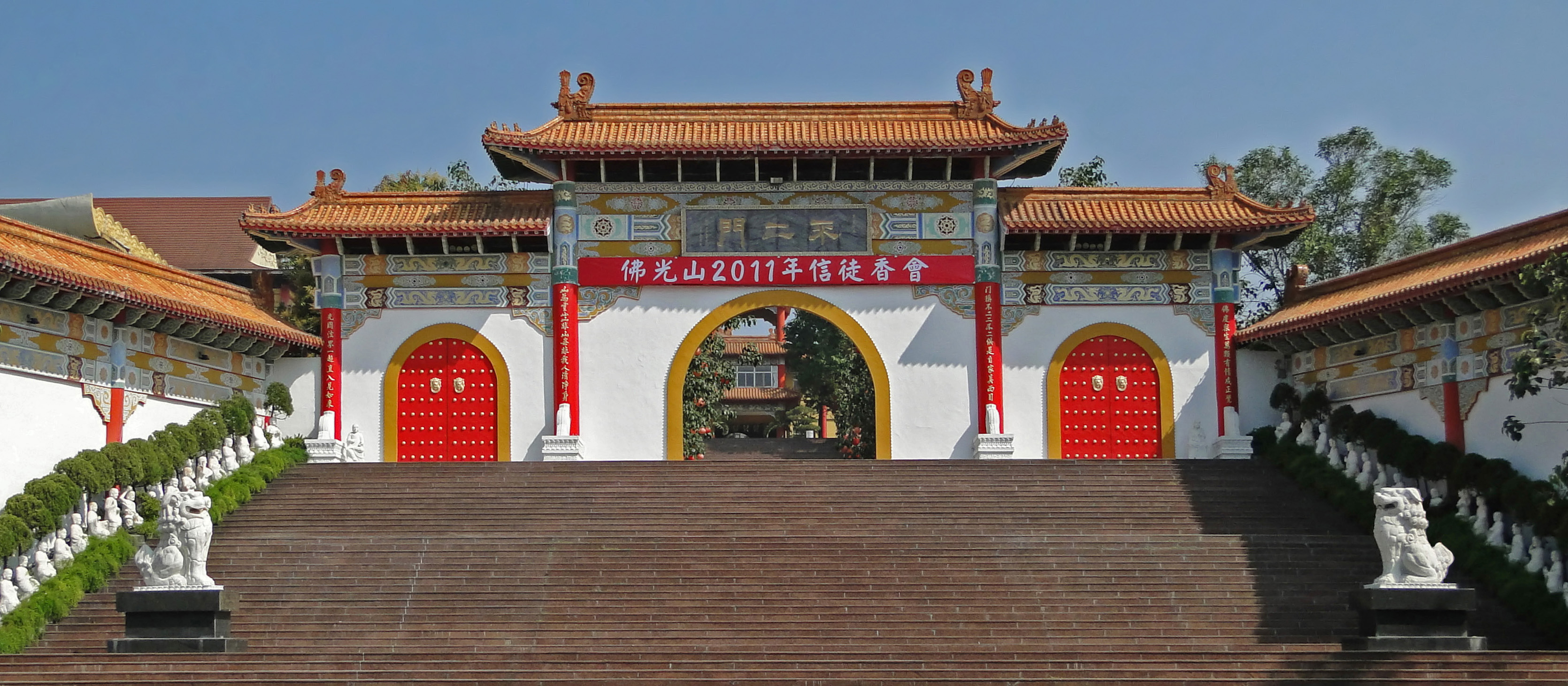 Main gate of Fo Guang Shan Monastery, Taiwan